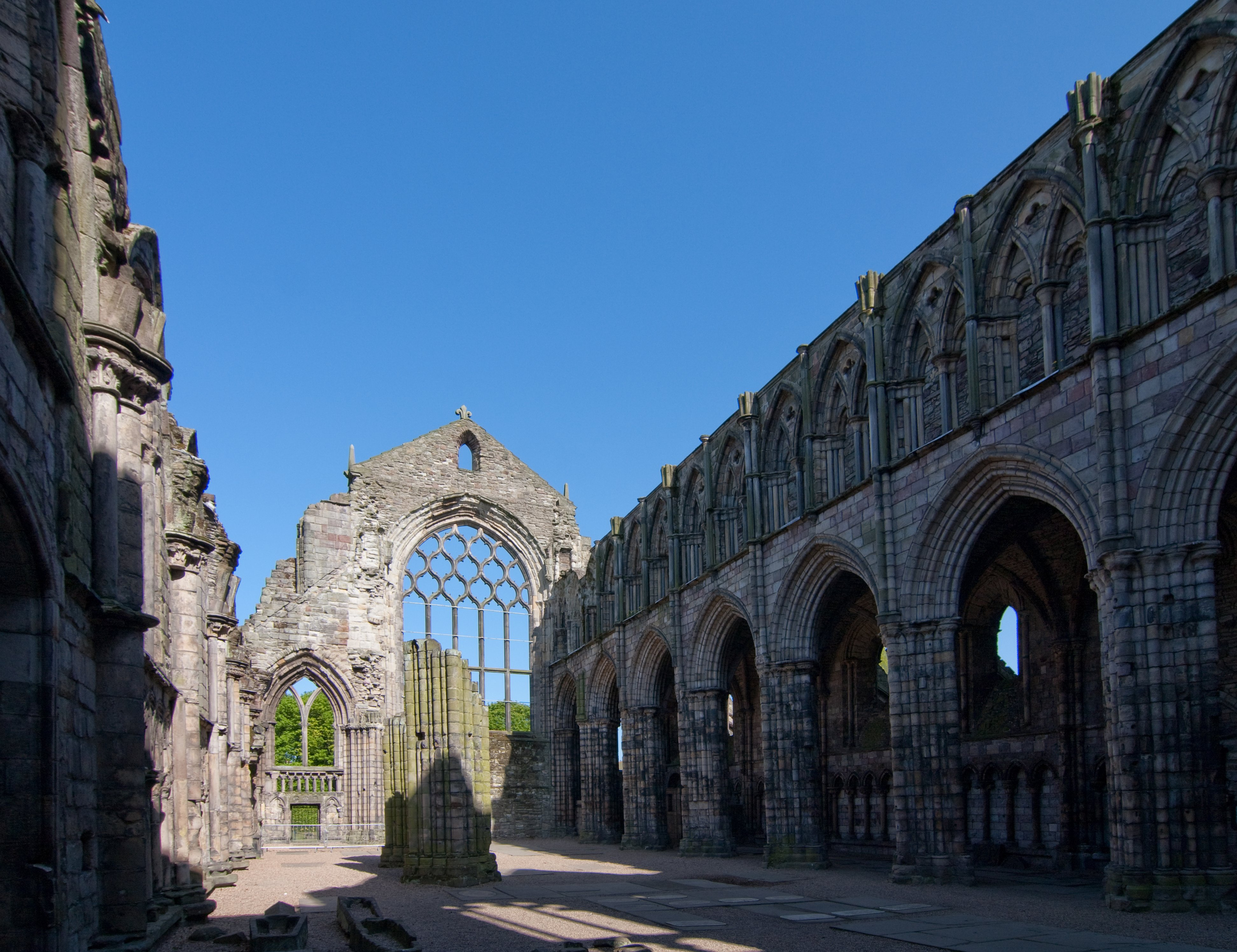 Ancient ruins of abbey which stands behind Palace of Holyrood House.